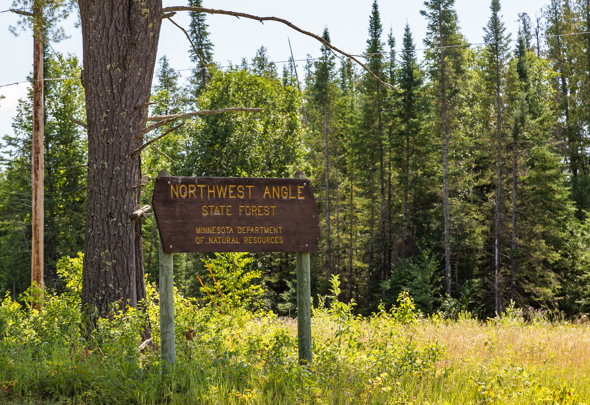 A sign for the Northwest Angle State Forest, Minnesota.